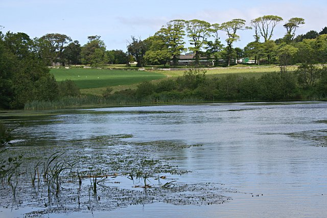 Pendarves Lake and Home Farm. Looking from the woodland edge, over the lake to the farm.